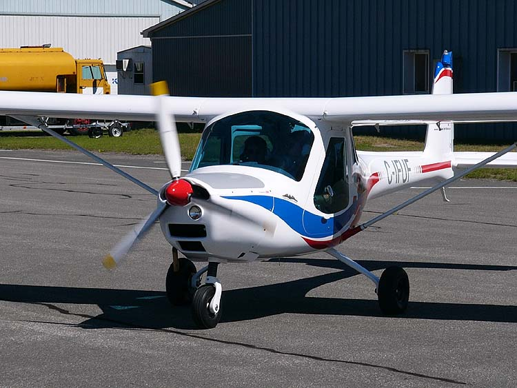 photo of a 3Xtrim 3X55 Trainer on 21 August 2006 at Peterborough, Ontario